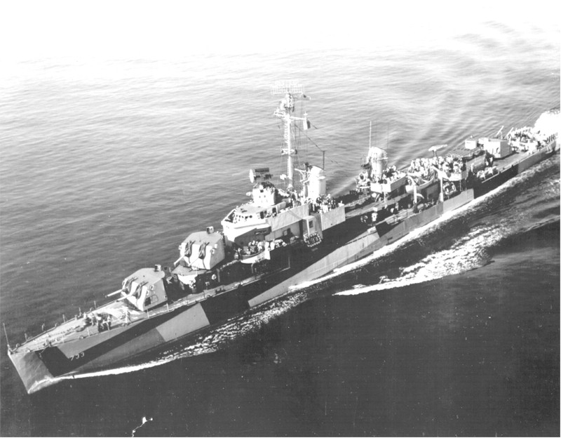 The U.S. Navy destroyer USS Mannert L. Abele (DD-733) underway at sea on 1 August 1944. She is wearing Camouflage Measure 32, Design 11A.